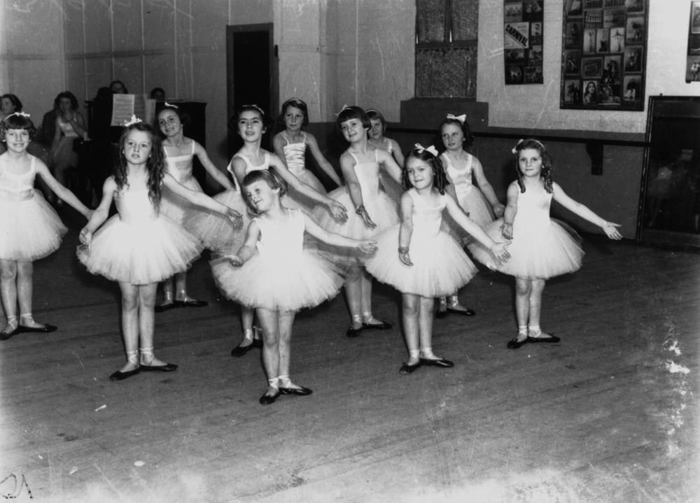 Creator: Unidentified for Truth newspapers. Location: Queensland. Description: Caption: Loraine Bunderson (front row, third from right) who got her certificate in the R. A. D. exams excelled in mime as well as toe work. (For exam results, see Truth, 4 September 1938, p. 18.) This image is part of the Sunday Sun newspaper collection at State Library of Queensland. View this image at the State Library of Queensland: Information about State Library of Queensland’s collection: You are free to use this image without permission. Please attribute State Library of Queensland.